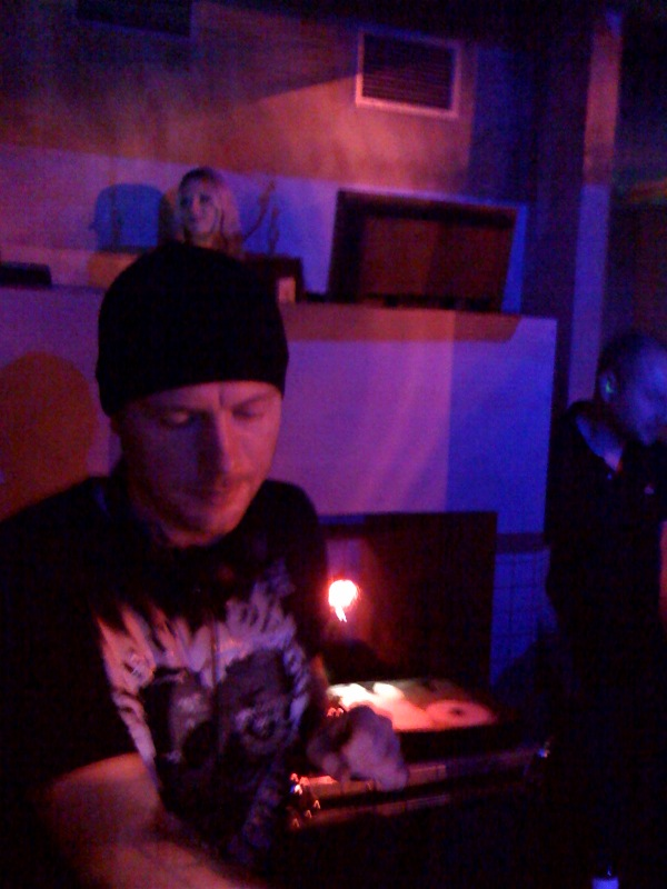 Eric Prydz, Swedish DJ and music producer